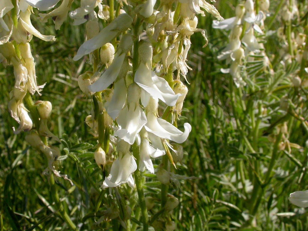 The profusion of bright white petals is distinctive.